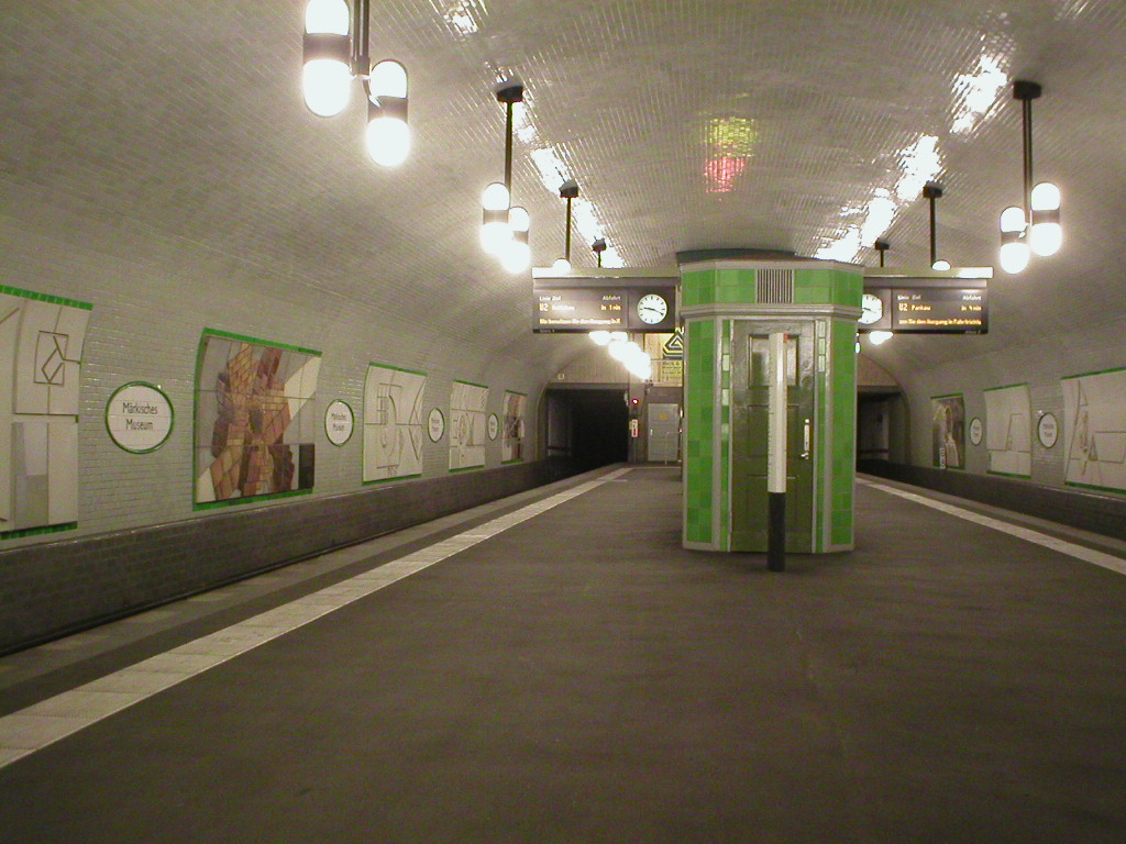 The Berlin U-Bahn station Märkisches Museum, line U2